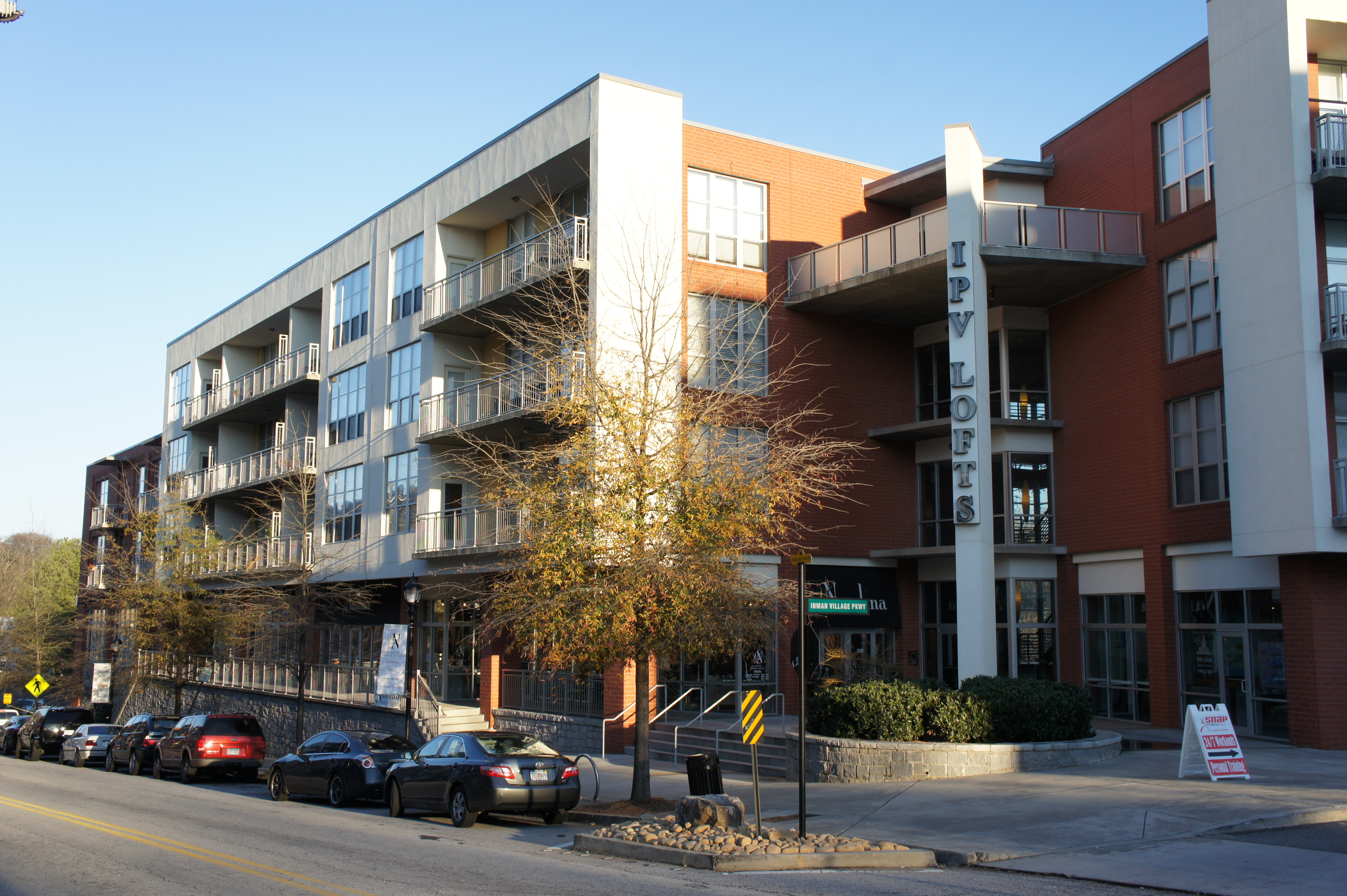 North Highland Avenue in Inman Park Village